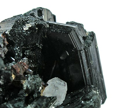 Chloritoid Locality: Nuristan Province (Nurestan; Nooristan), Afghanistan (Locality at ) Size: small cabinet, 6.3 x 3.5 x 3.0 cm Chloritoid An unusually displayable chloritoid cluster in that it is on matrix (contrasting matrix at that!), and has multiple crystals (to 3 cm) instead of the usual broken single crystal one so often sees. Chloritoid is very rare, and great crystals, the world's best, seem to have come out from only one aberrant find in Afghanistan about 1999-2000. Notable specimens made their way into several prominent collections at the time, mostly coming through dealer Herb Obodda, as with this one which was sold to Lawrence Conklin in NYC at the time for his personal collection of rare species miniatures. This is a very showy specimen because of the contrast as the jet black, lustrous, chloritoid crystals perch upon quartz. Minor bright red rutile serves as an accent on the quartz mass.